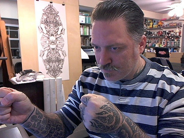 a photo of Joshua Davis in his studio 2012, working on the "Forty Thieves" exhibition